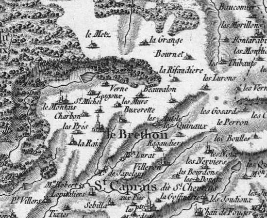 Lo Breton on the map of Cassini